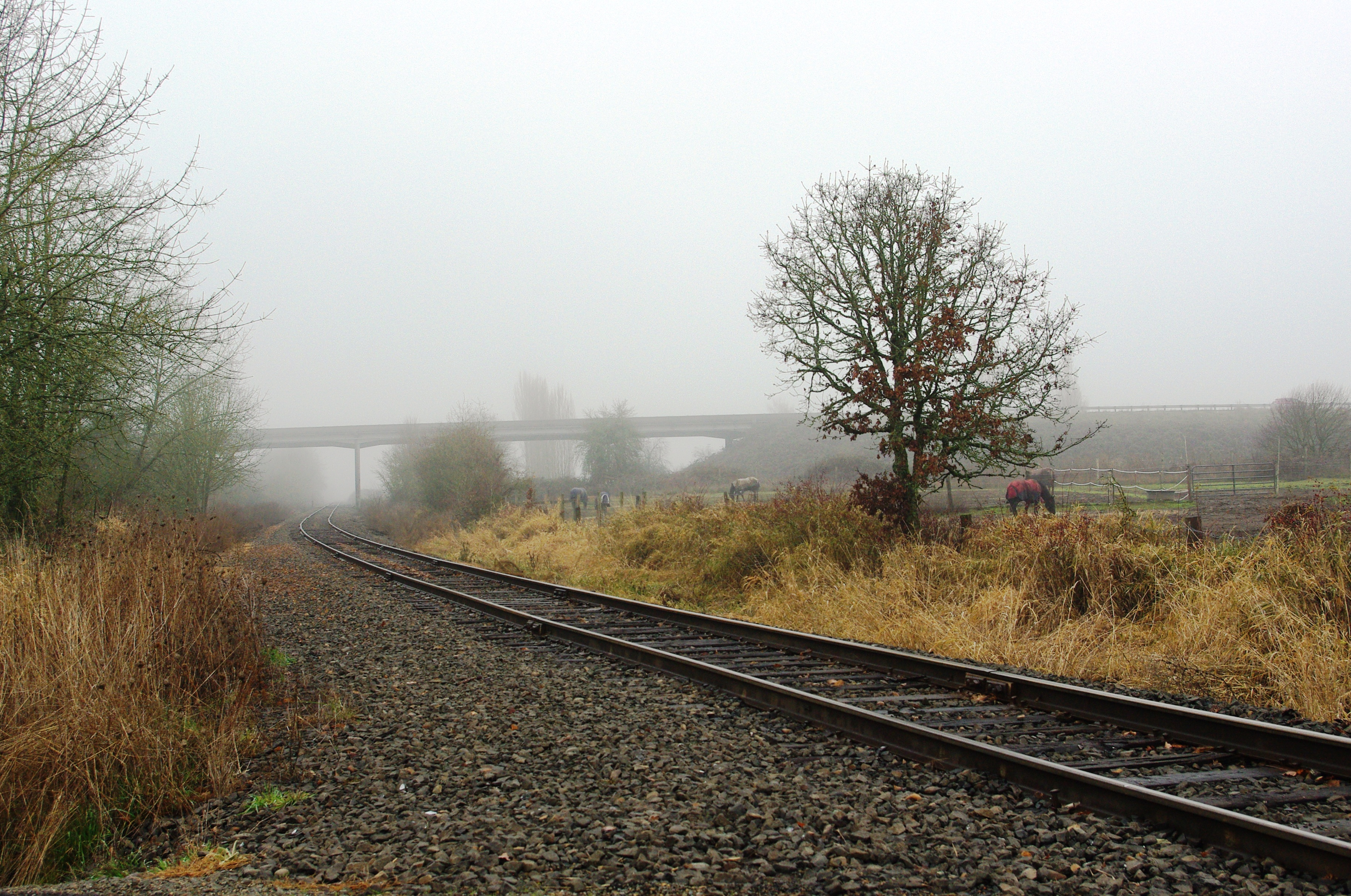 Rail crossing at Wilkeseboro Road at Wilkesboro, Oregon, with Oregon Route 6 overpass in background. Tracks are part of the Tillamook Bay Railroad, which connects to the Portland and Western Railroad at the overpass.